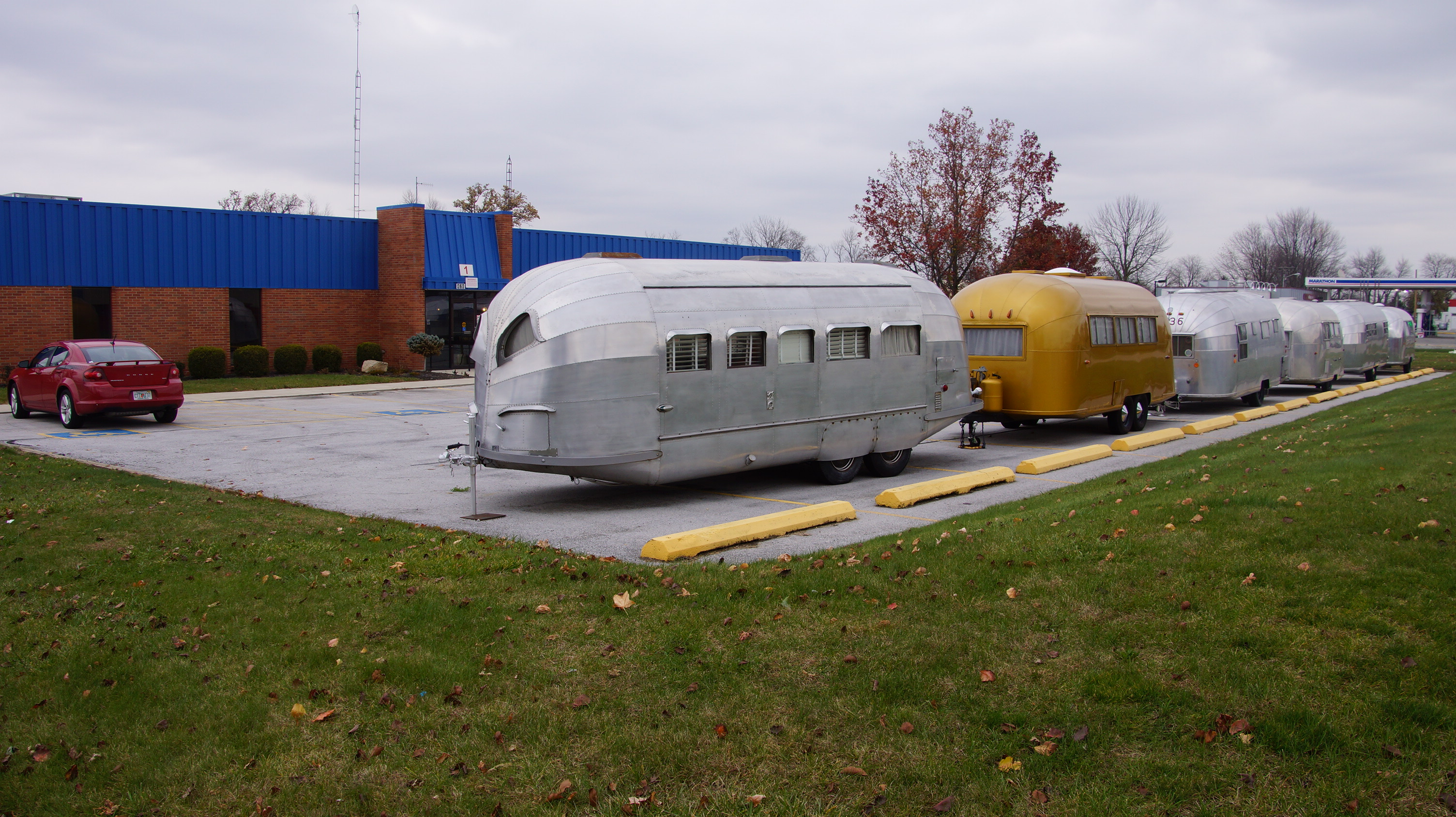 Airstream Travel Trailers in Jackson Center, Ohio